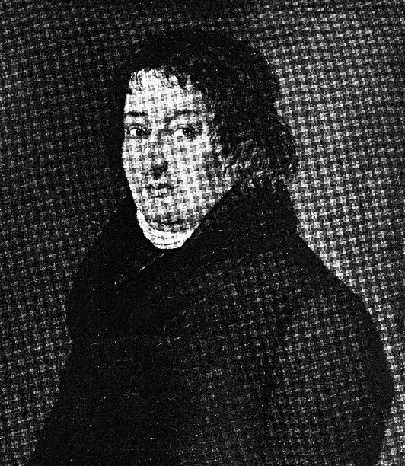 Friedrich Weinbrenner (1766-1826); 63:56 cm